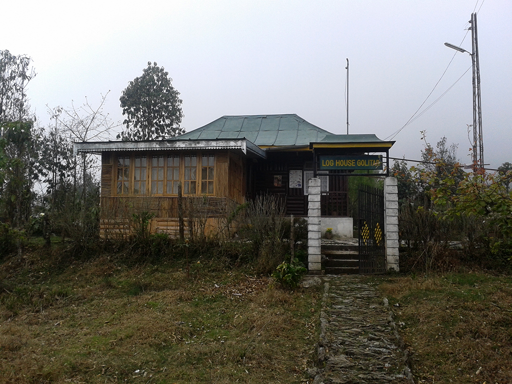 This image has been photographed from Golitar, Fambong Lho WLS, Sikkim.